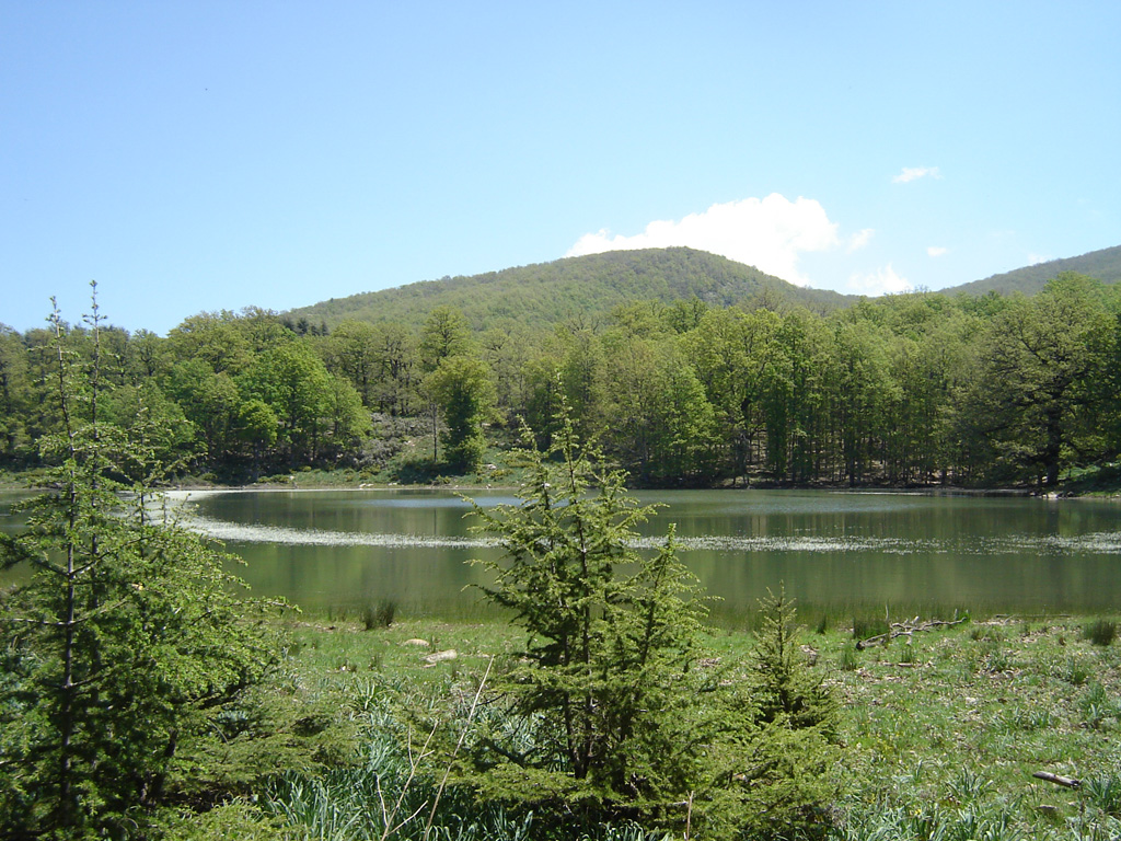 assif